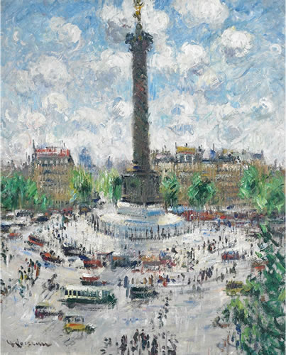 Place-de-la-Bastille